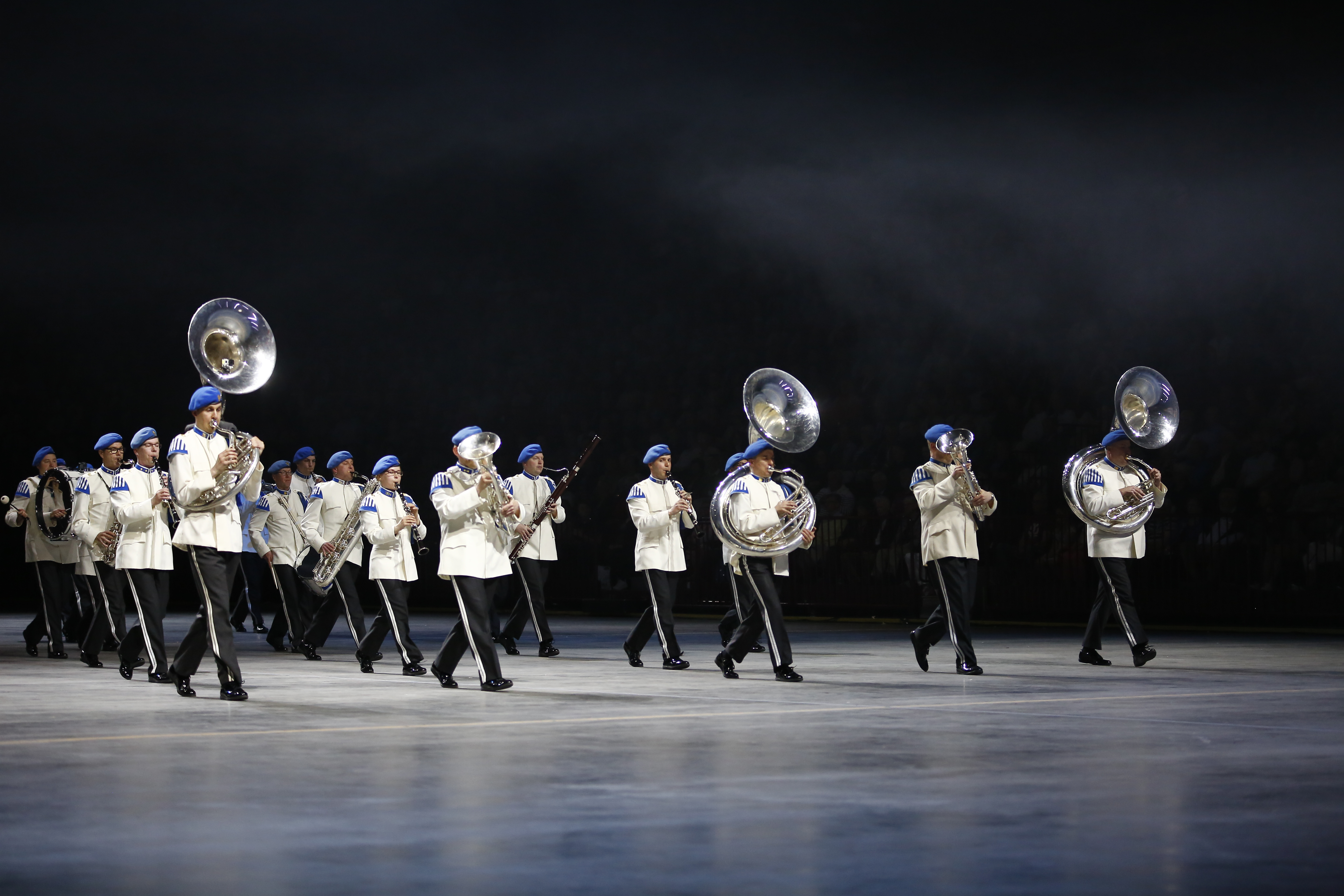 The Guards Band at the Sweden International Tattoo in Malmö, Sweden